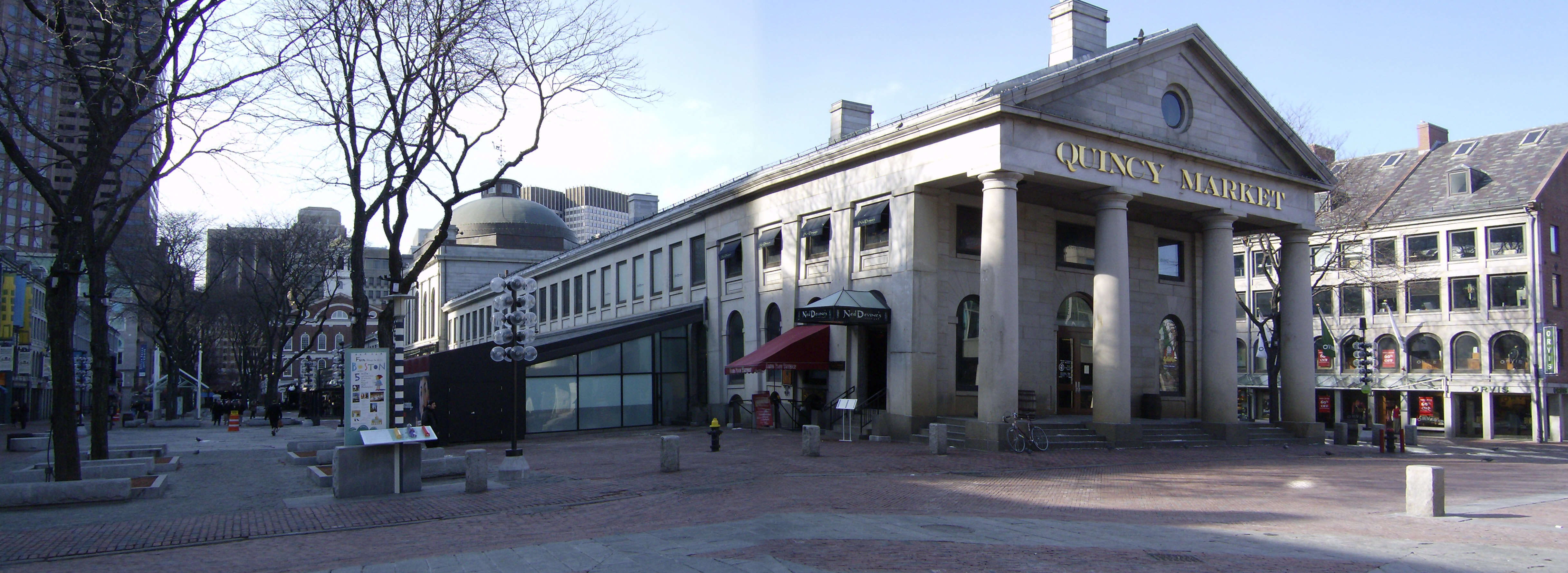 A panoramic photo of Quincy Market.